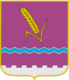 Coats of arms of Velikopisarivskij district (Ukraine)